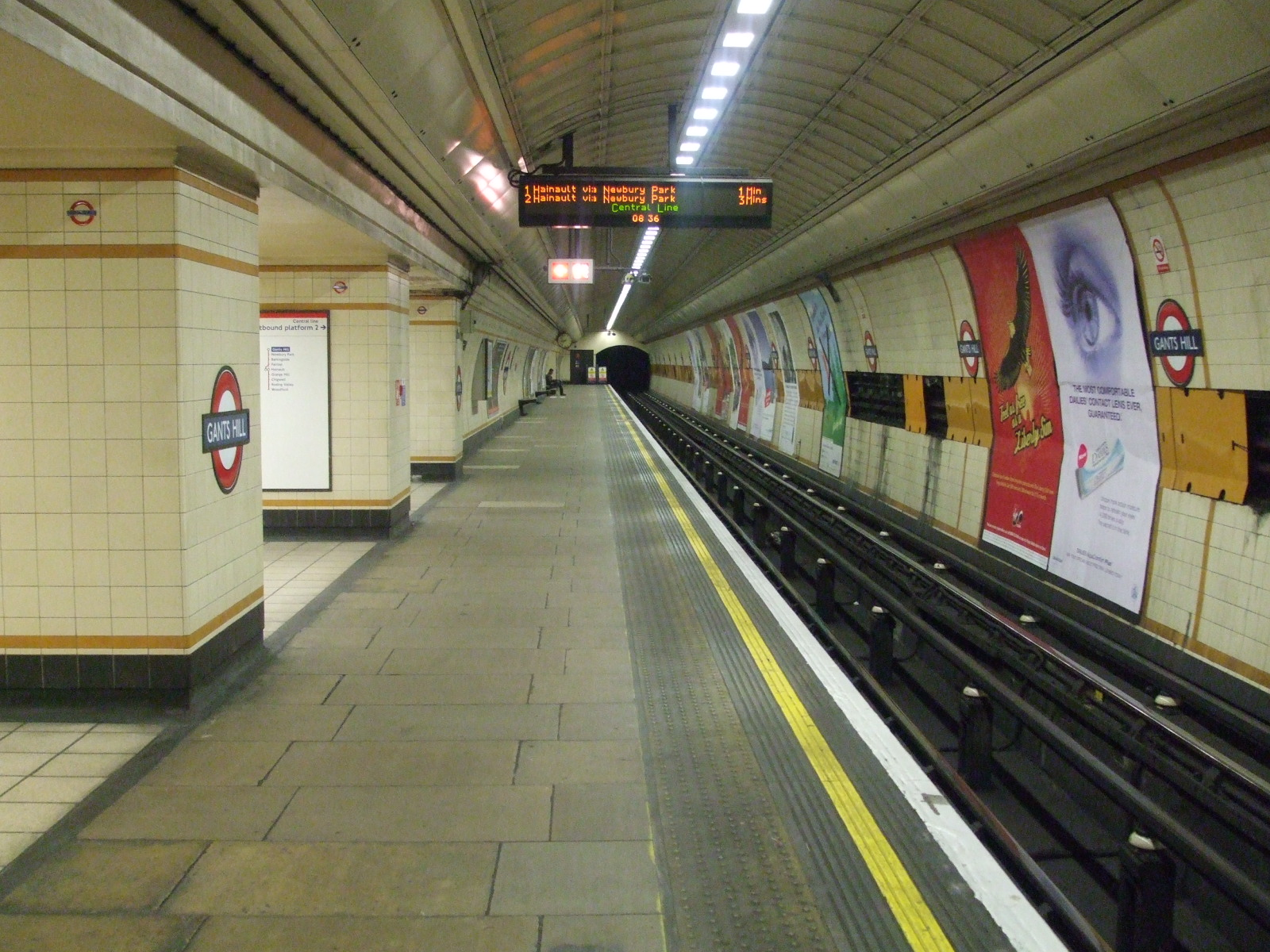 Gants Hill tube station eastbound platform looking west